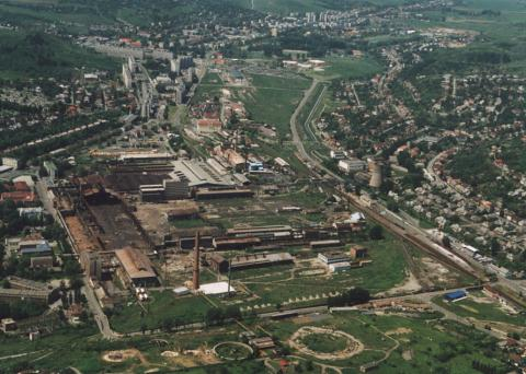 Ózd, Hungary, aerialphotography